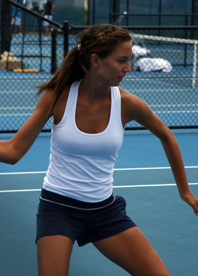 Monika Wejnert during practice at the 2009 Brisbane International